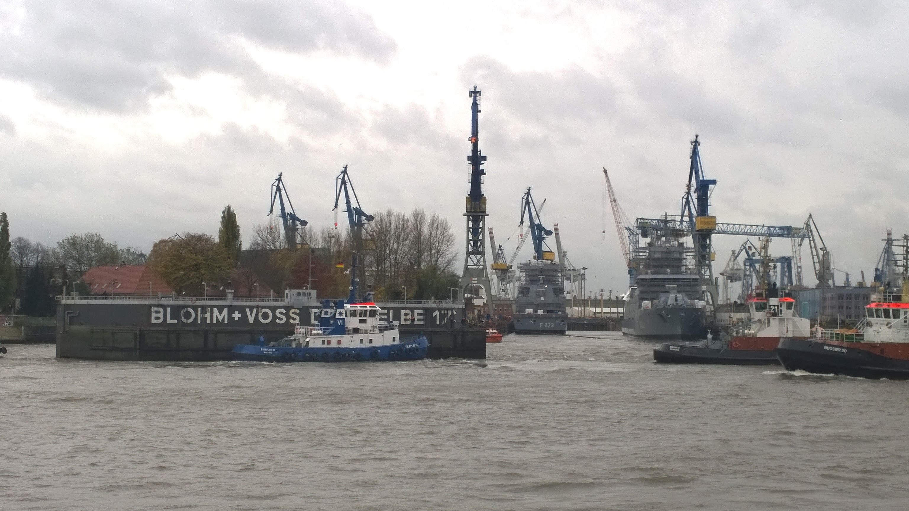 Both frigates, F222 and F223 are now moored at the B&V Dock. The tug Fairplay VI and Bugsier 21 close the gate of Dock 17